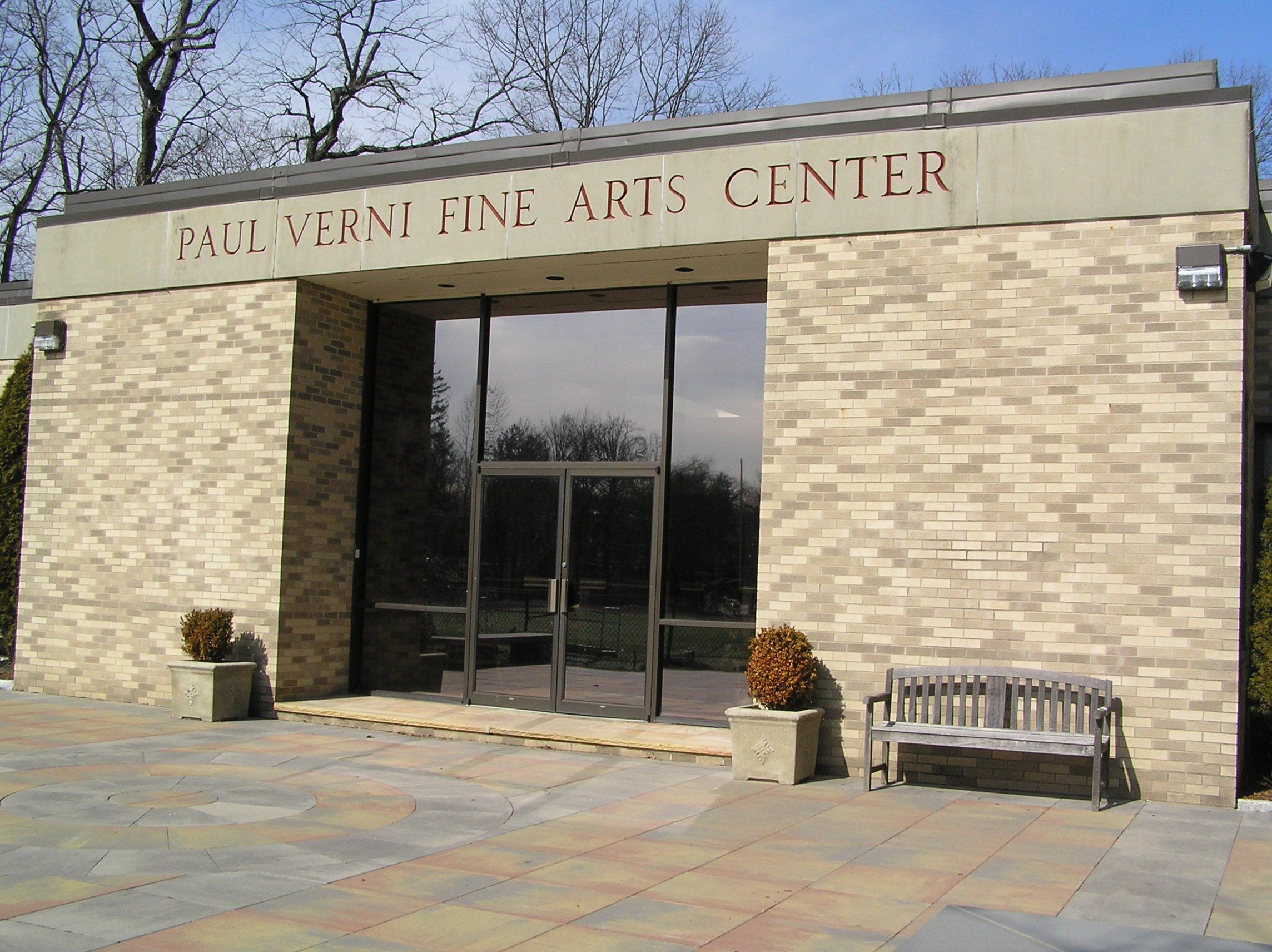 The Paul Verni Fine Arts Center, Iona Preparatory School, New Rochelle, New York, USA. February, 2012